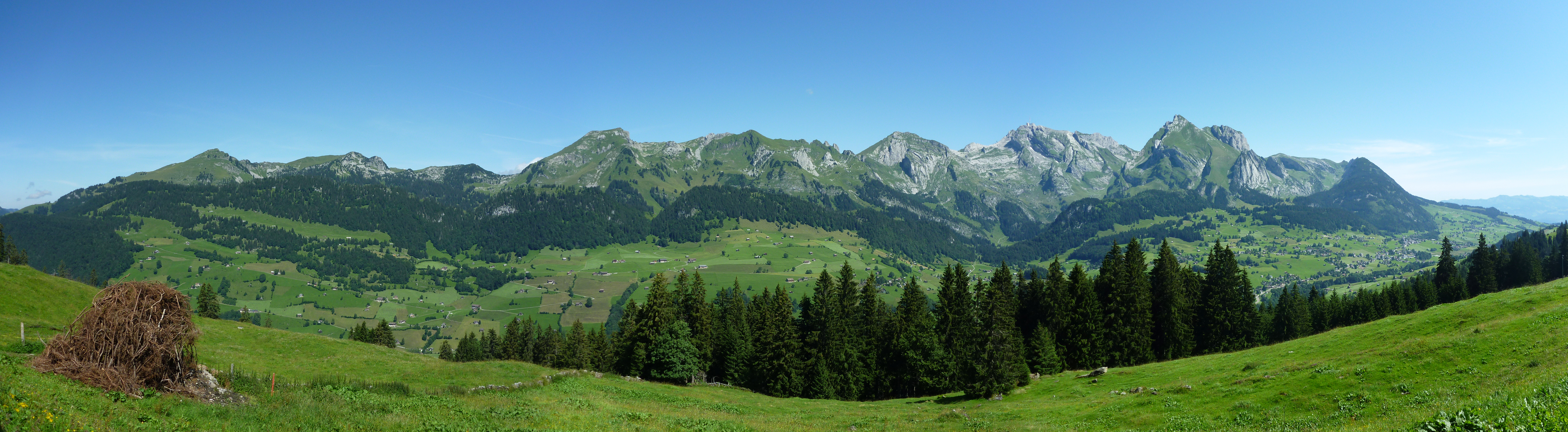 Southern view of Alpstein mountains, panoramic view of three single pictures. Mountain (left to right): Neuenalpspitz, Gmeinenwis, Lütispitz, Stöllen, Stoss, Säntis, Wildhuser Schafberg, Zehenspitz Photo taken on the "Klangweg", close to Alp Sellamatt.